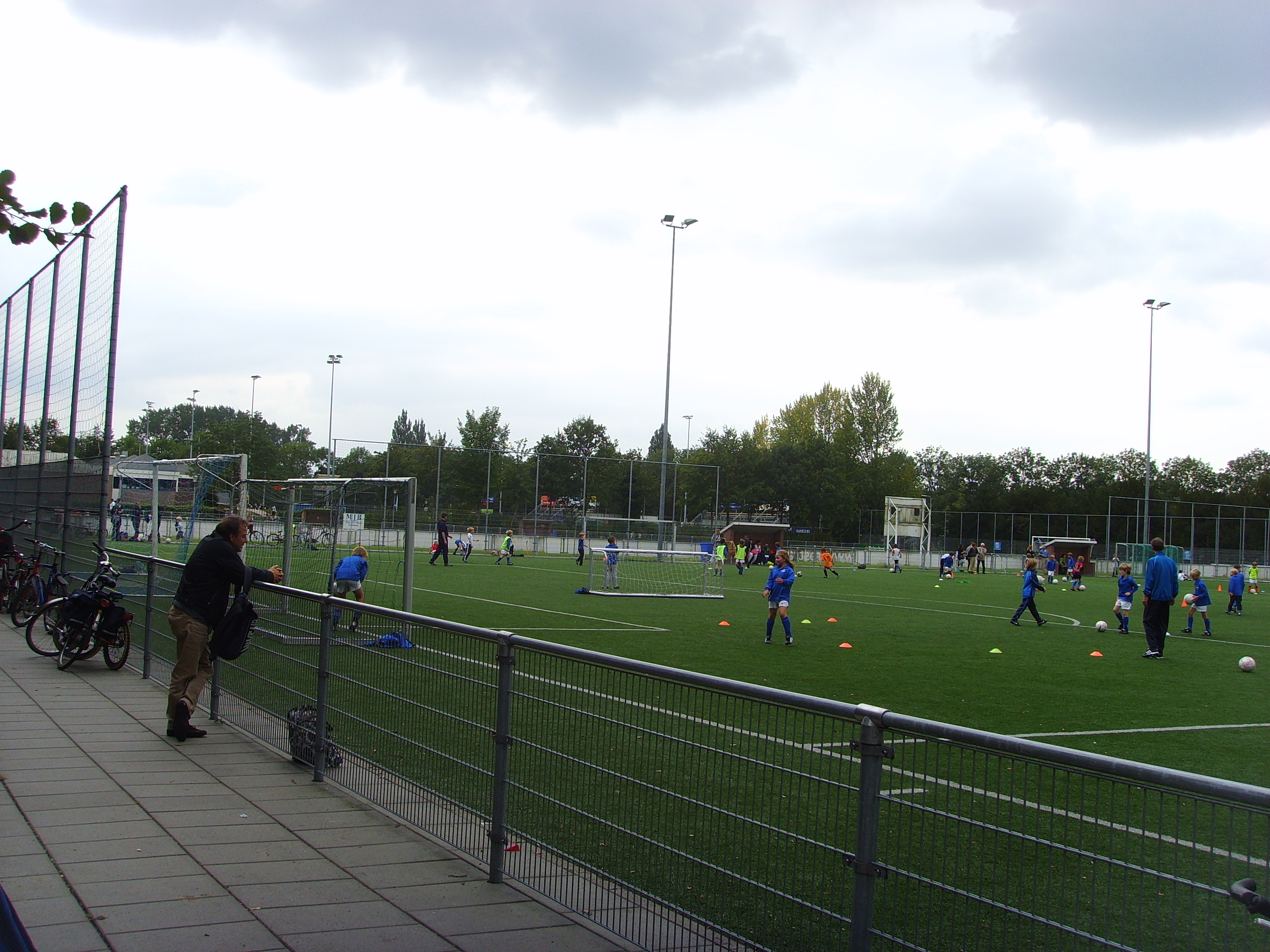 Kampong football club fields